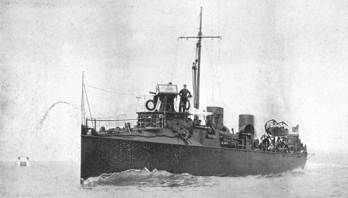 Photograph of British destroyer HMS Hunter.